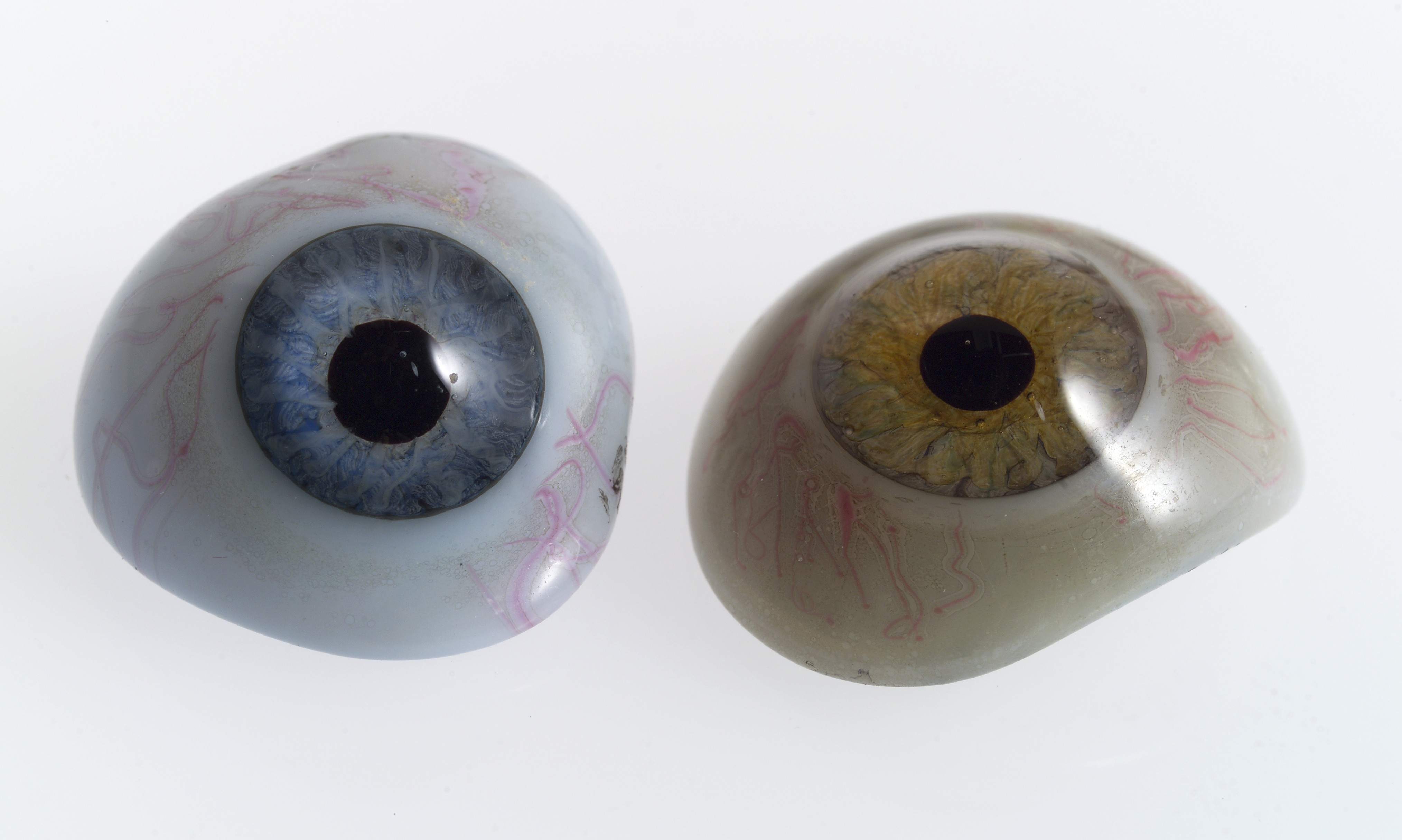 A selection of glass eyes from an opticians glas eye case. Possibly made by E. Muller of Liverpool. Wellcome Images Keywords: Eye; Optician; Prosthetics; Artificial; Eye colour; Lens; Ophthalmology; Ophthalmic